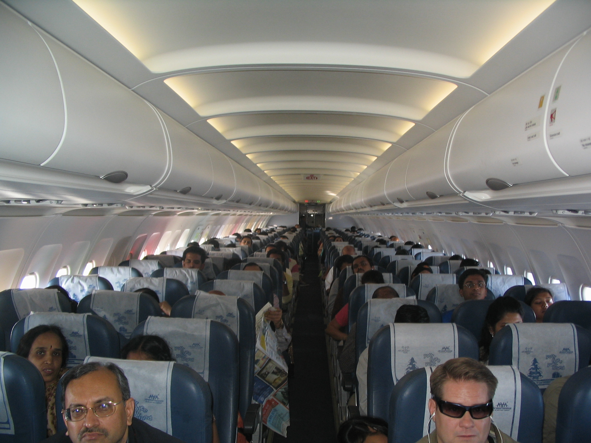 Interior of an Air Deccan Airbus 320-200. Photograph taken during flight from Pune to Bangalore.